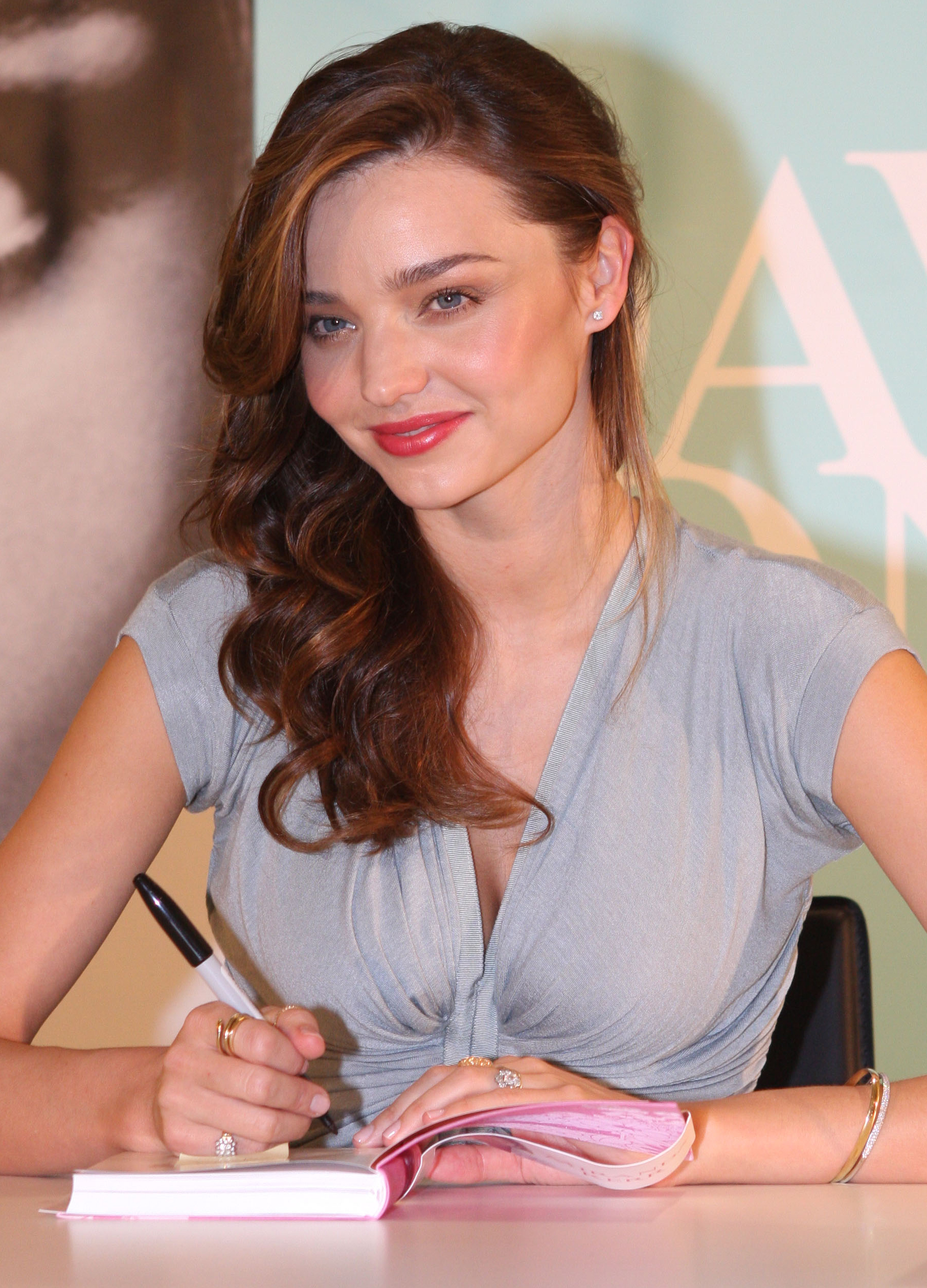 Miranda Kerr at a book signing.